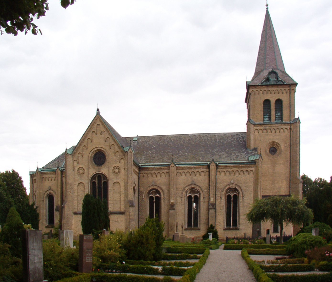 The Lomma church from the south Date as of upload